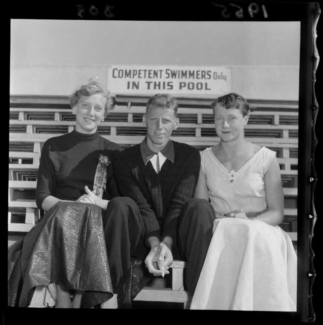 Group of three swimmers, Marion Roe, J Dombs and Winkie Griffin